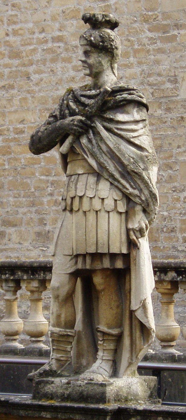 Photo of the statue of Gnaeus Julius Agricola erected in 1894 at the Roman Baths, taken 22 March 2006 by Ostrich